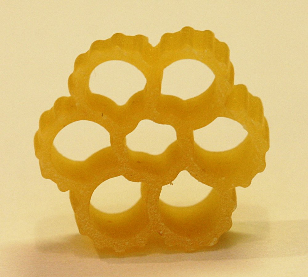 Fiori-shaped pasta by Barilla. Approximately 0.5" in diameter.